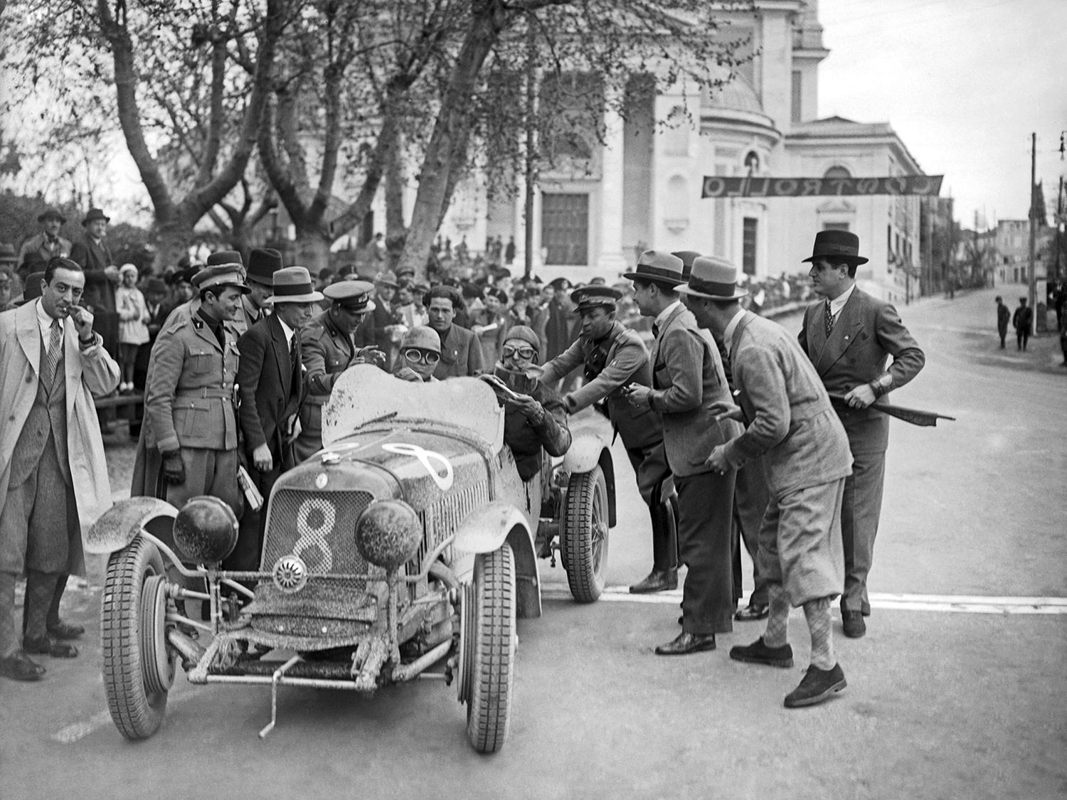 Piero Taruffi and co-driver Guerino Bertocchi in a Maserati 4CS 1100ccm at the Mille Miglia race in Italy on 8 Aprile 1934. They ended in 5th place.[1]